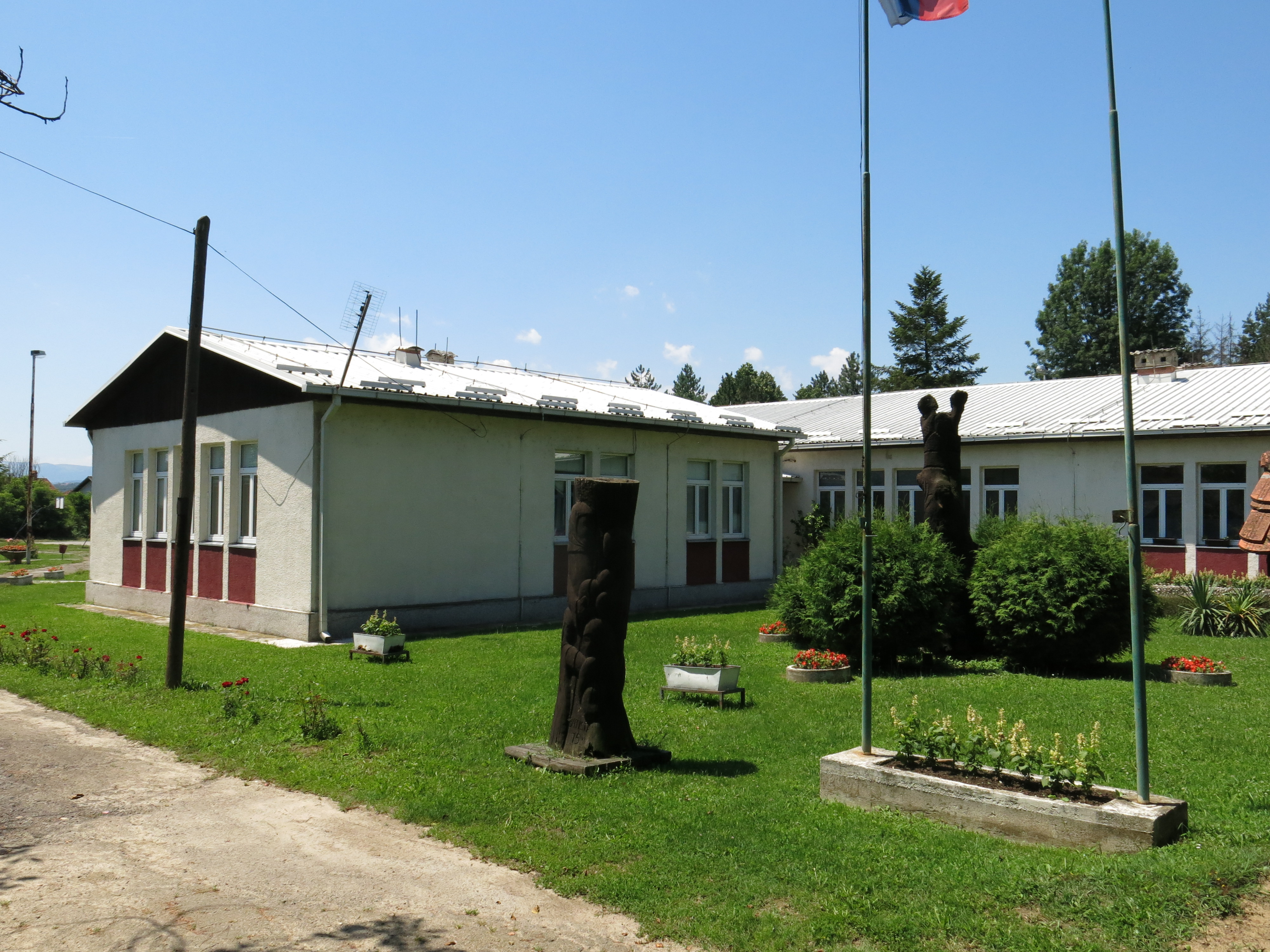 Dudovica, Elementary school Mihailo Mladenović Selja